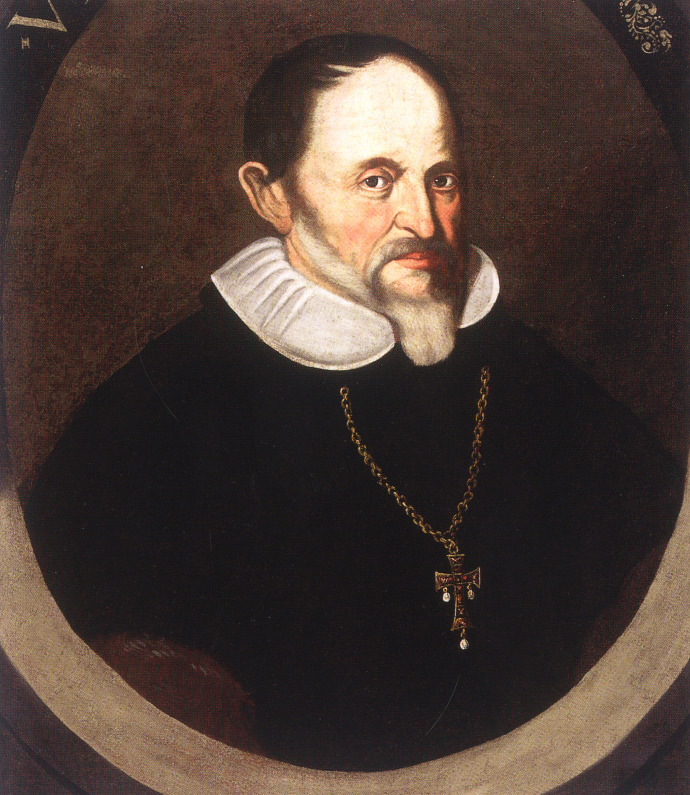 Portrait painting of Otto Friedrich von Buchheim, Bishop of Ljubljana.